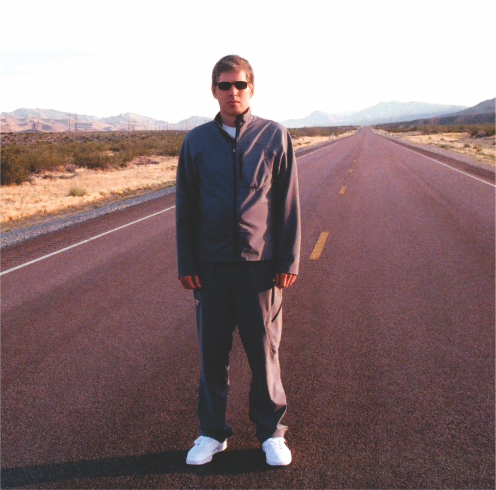 This is the same image that appears on the cover of Road Songs 2.